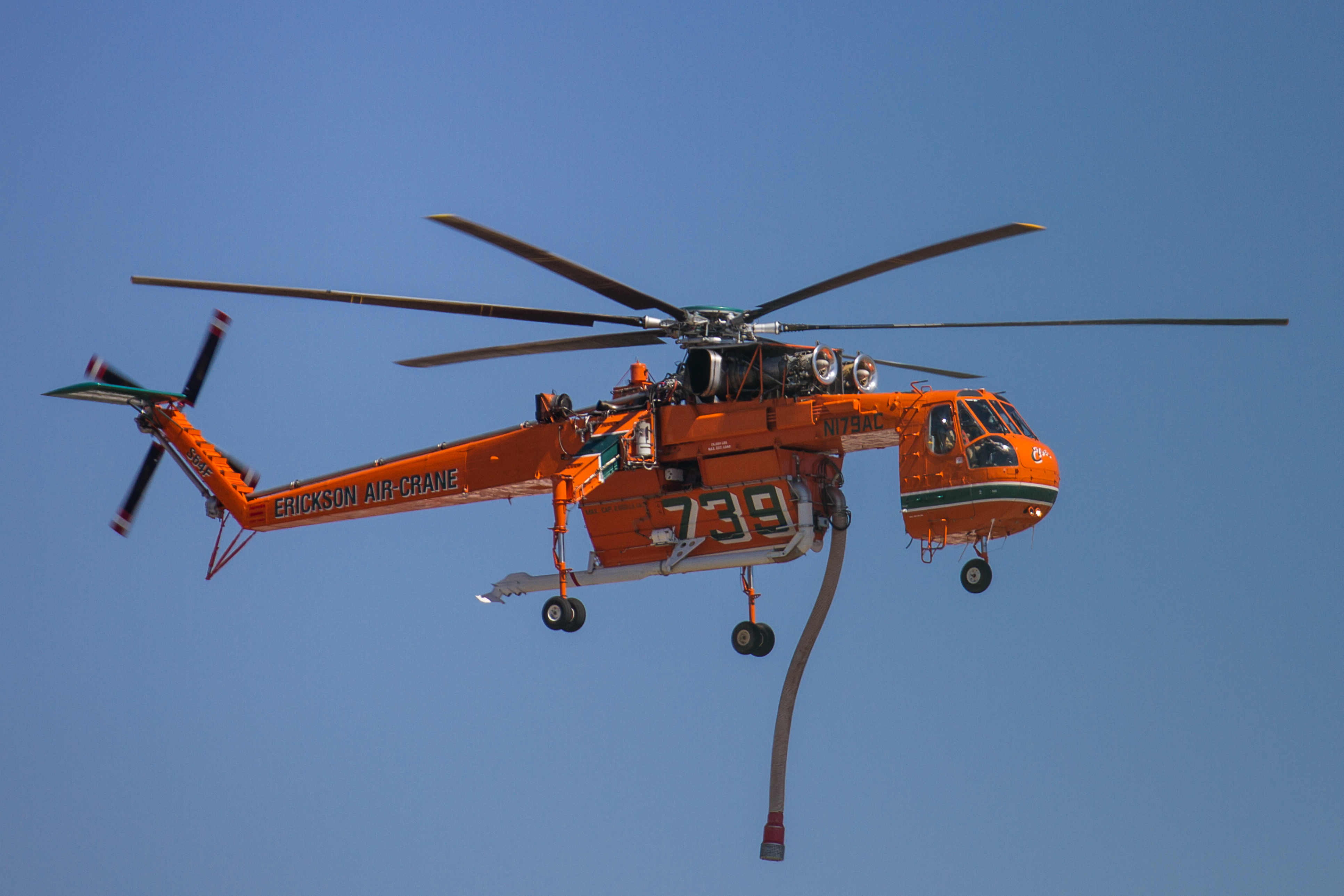 An Erickson S-64 Air-Crane Helicopter on lease to the Los Angeles Fire Department returns to Van Nuys Airport (VNY/KVNY) with its firefighting spray hose deployed